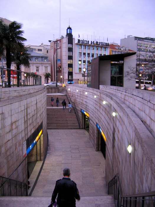 Entrance of the Metro station Marquês de Pombal, Lisbon, Portugal